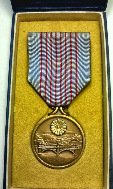 2600th National Anniversary Commemorative Medal.